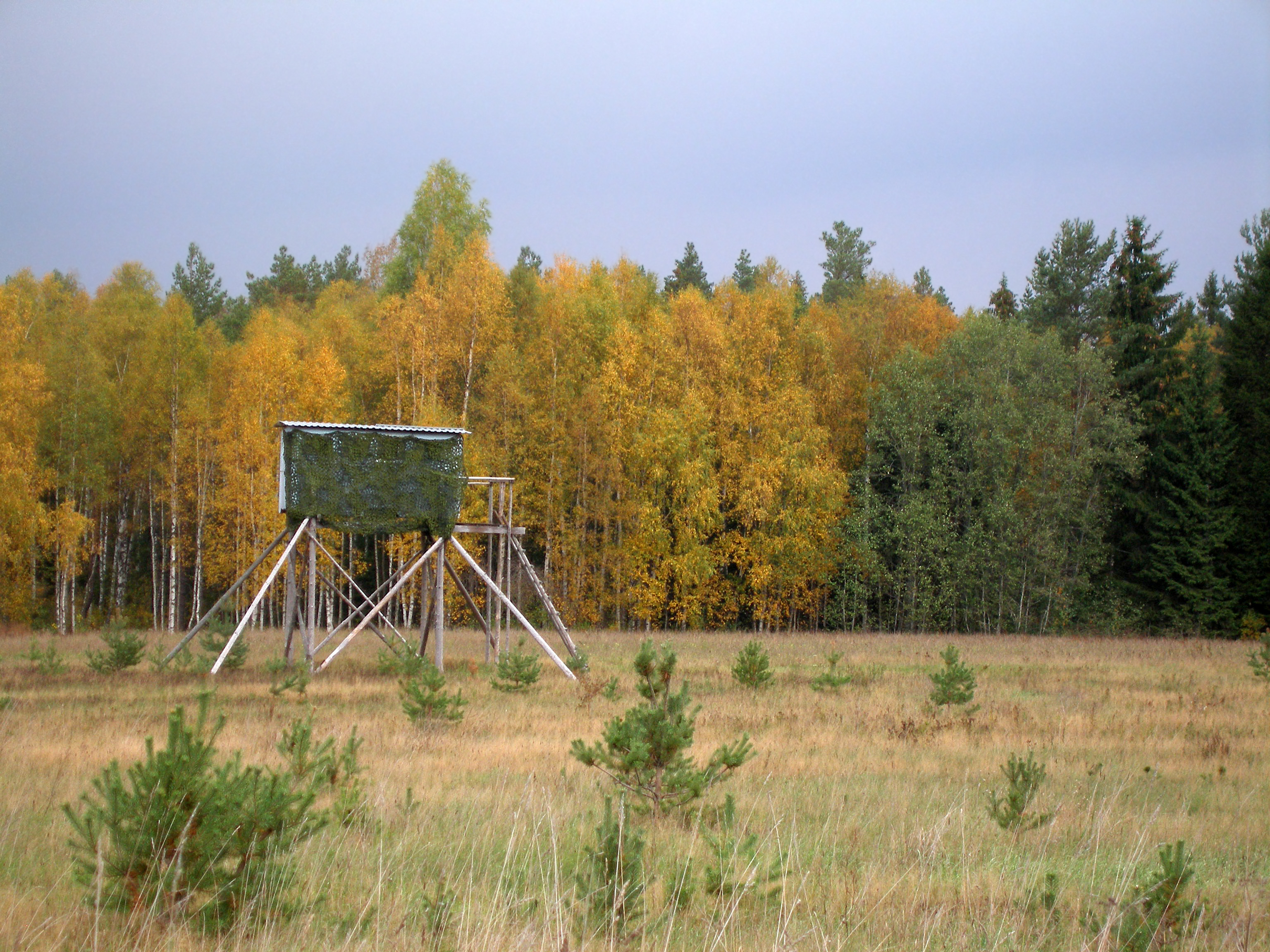 Hunting blind in Järva County, Estonia, 0.5 km east from Kakerdaja bog.